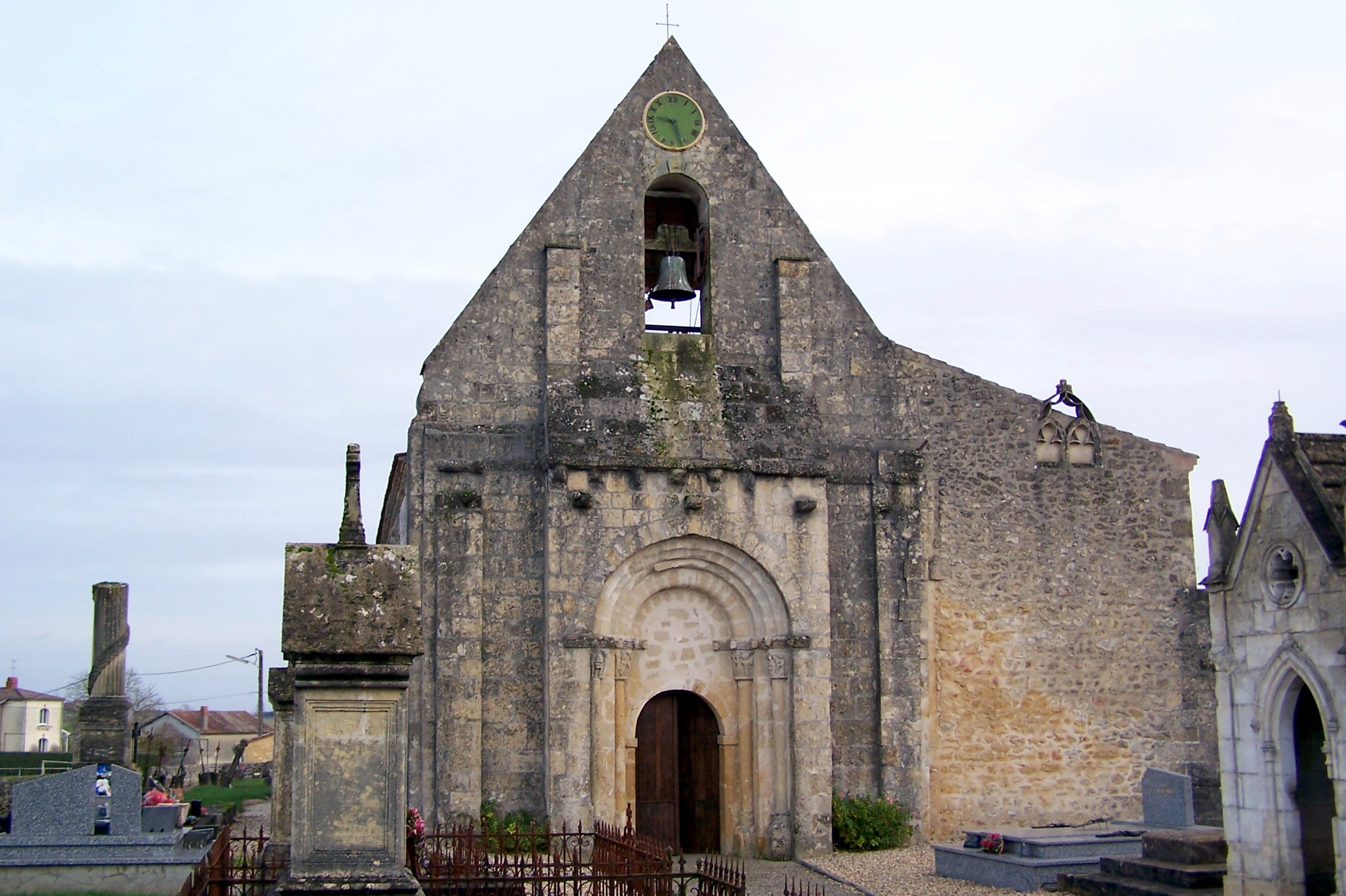 Church of Saint-Martial (Gironde, France)